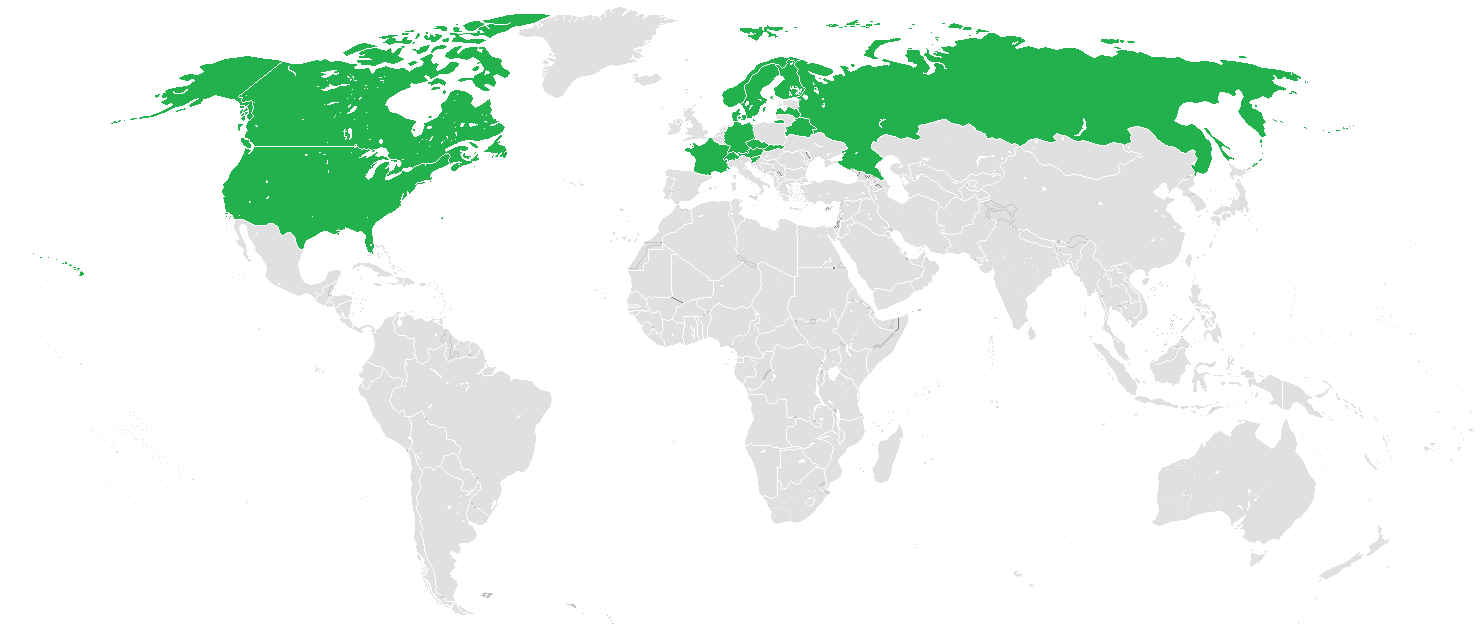 Countries participating in the 2013 IIHF World Championship.